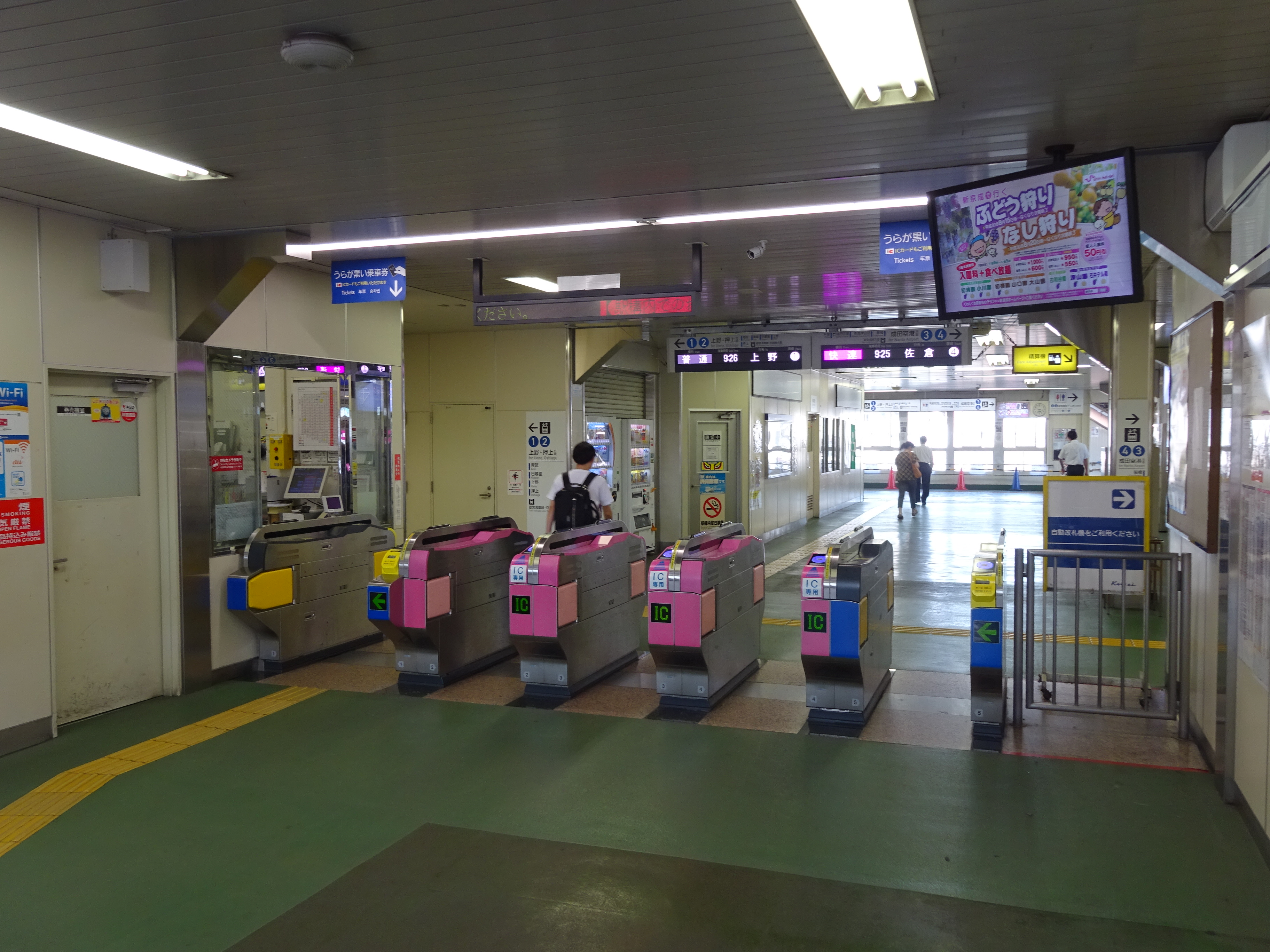 Ticket barriers of Keisei Koiwa Station